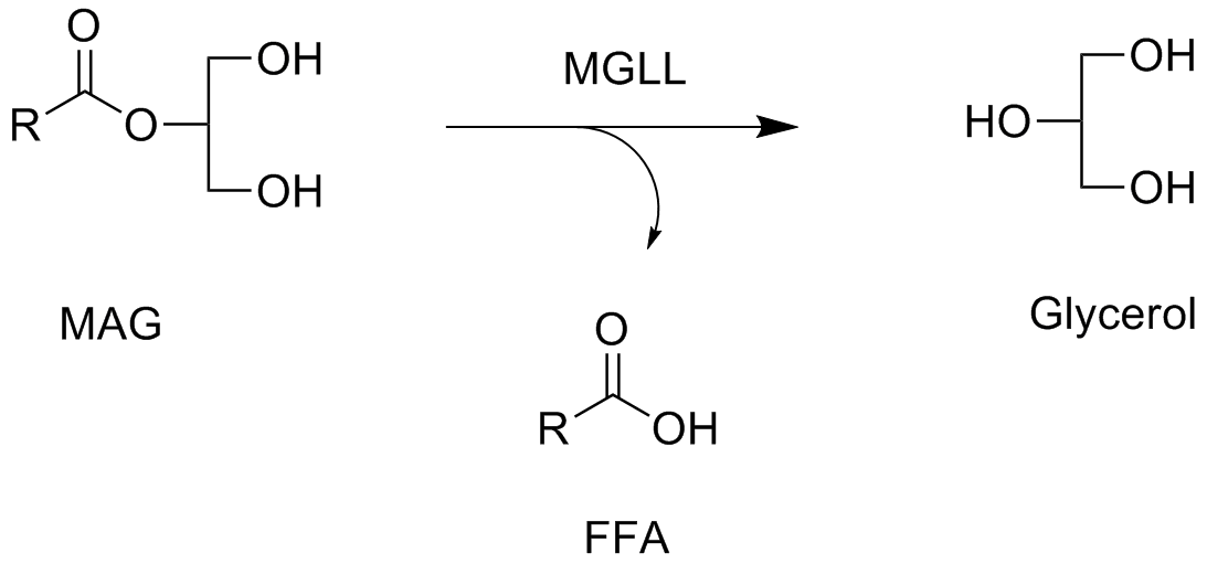 self-made in chemdraw